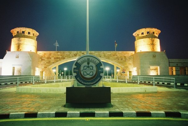 Jordan University of Science and Technology